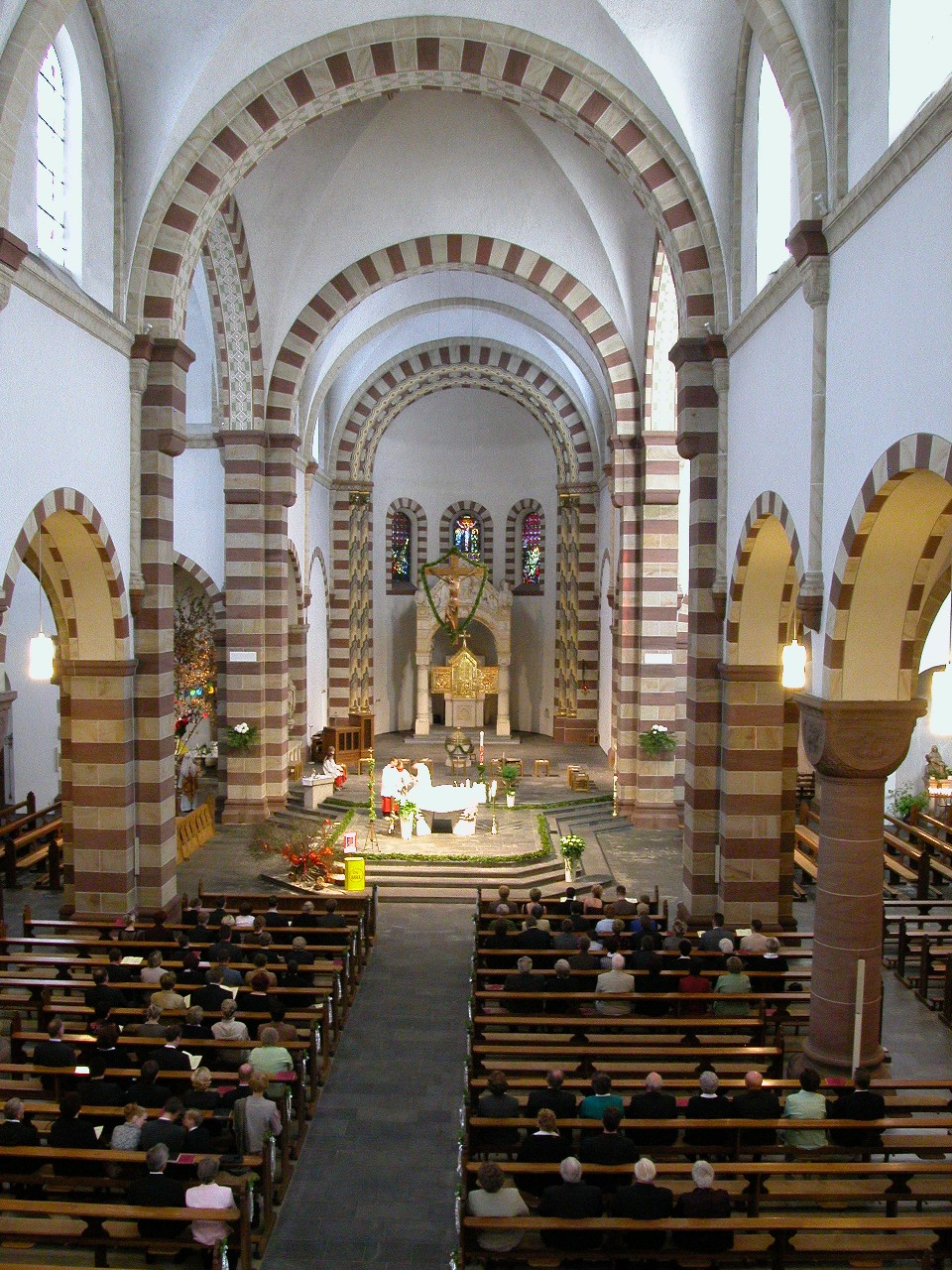 Innenansicht St. Nikolaus Ankum